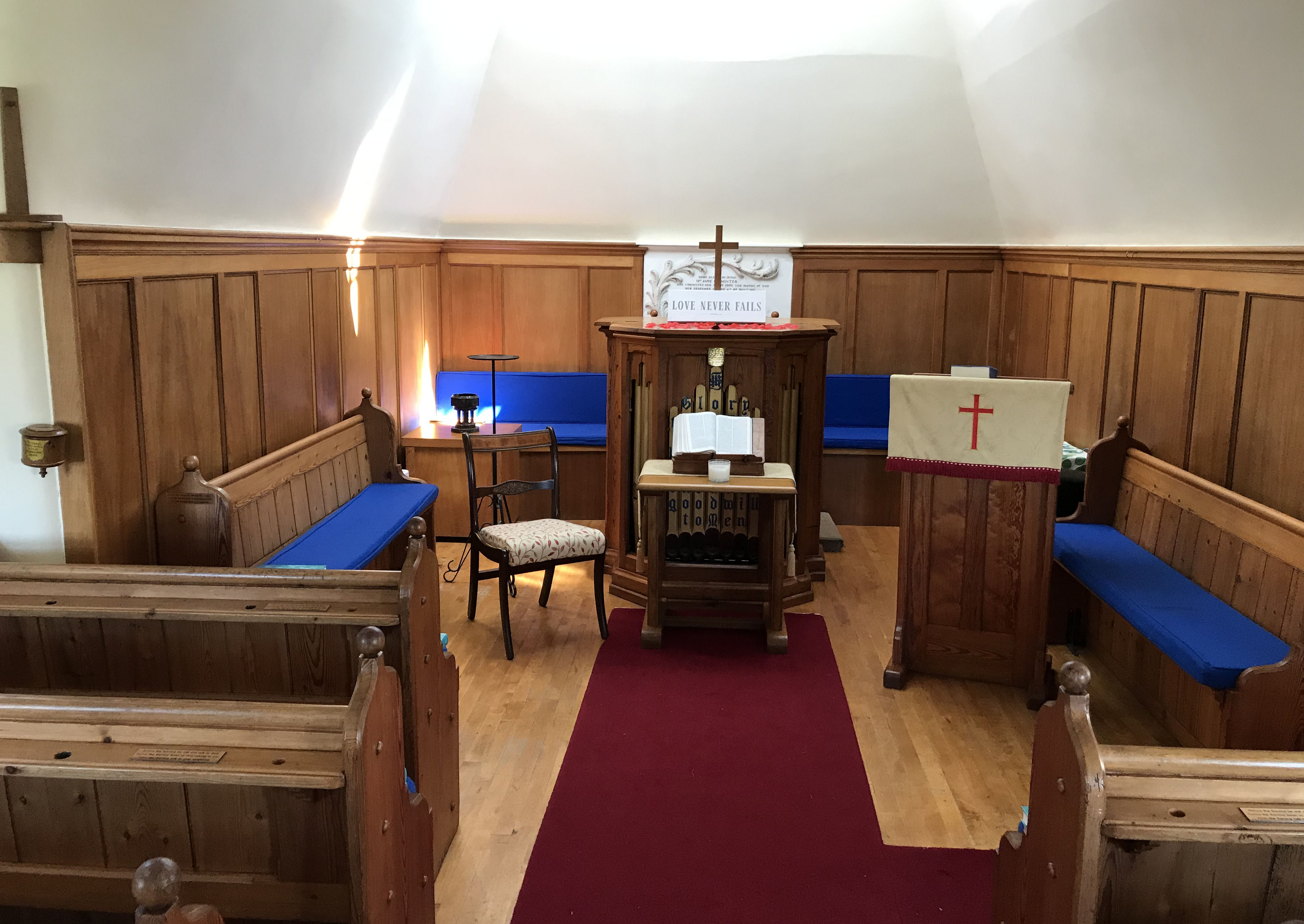 Inside the Point-in-View chapel at A La Ronde in Devon